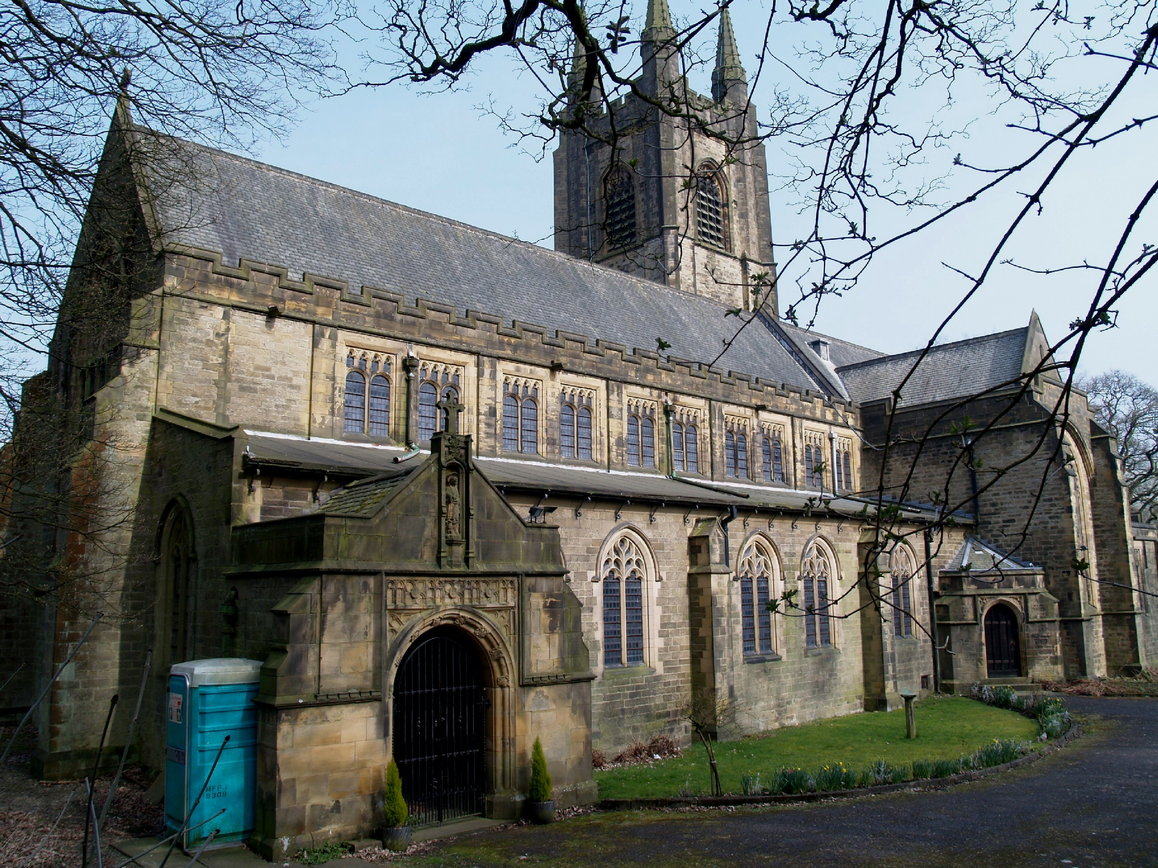 Photograph of the Church of St John the Evangelist, Crawshawbooth, Lancashire